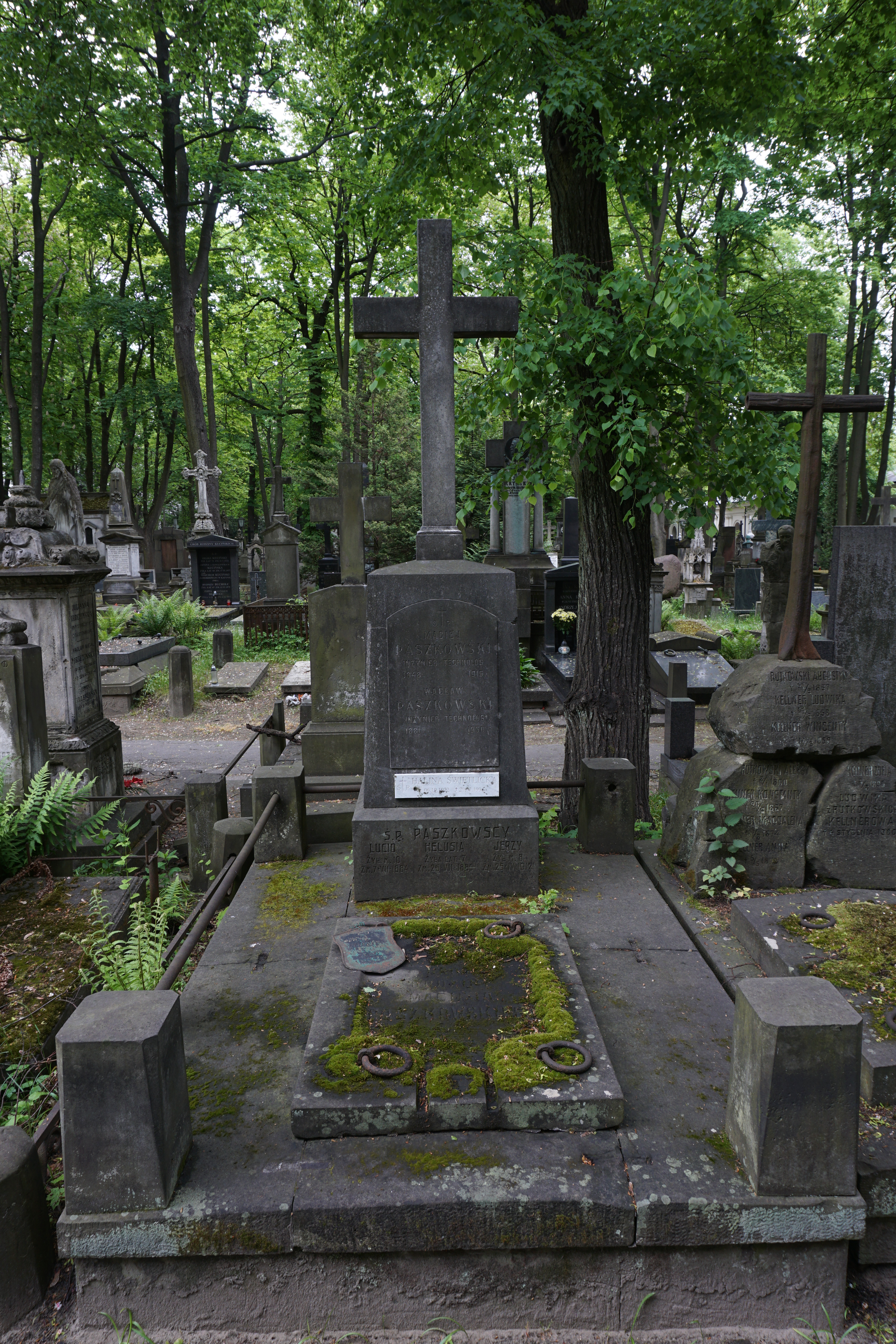 The grave of Wacław Paszkowski at the Powązki Cemetery (section 22, row 2, grave 12, 13)